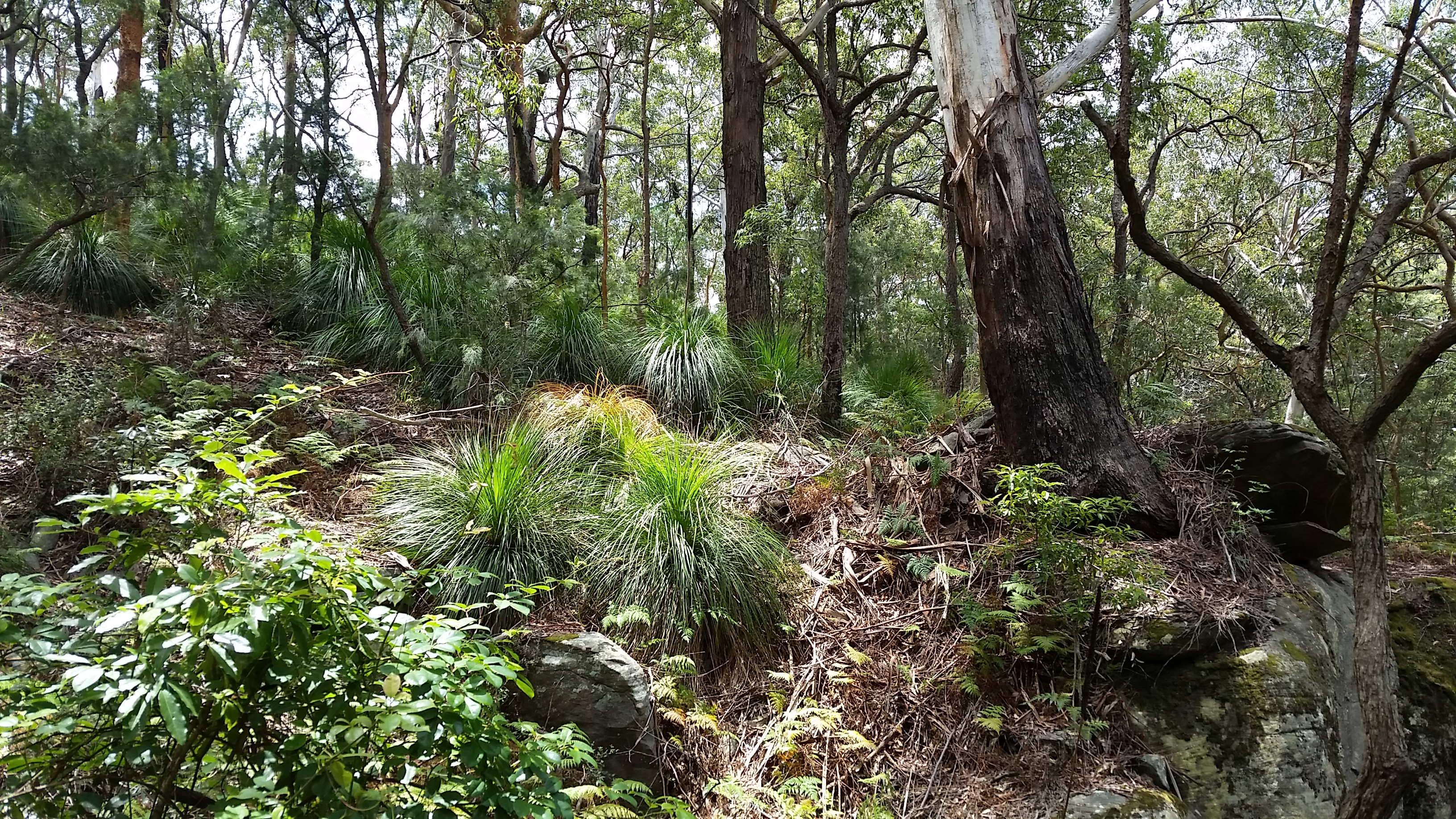 A crowded Schlerophyll landscape in the Kincumba Mountain Reserve, Green Point, NSW.